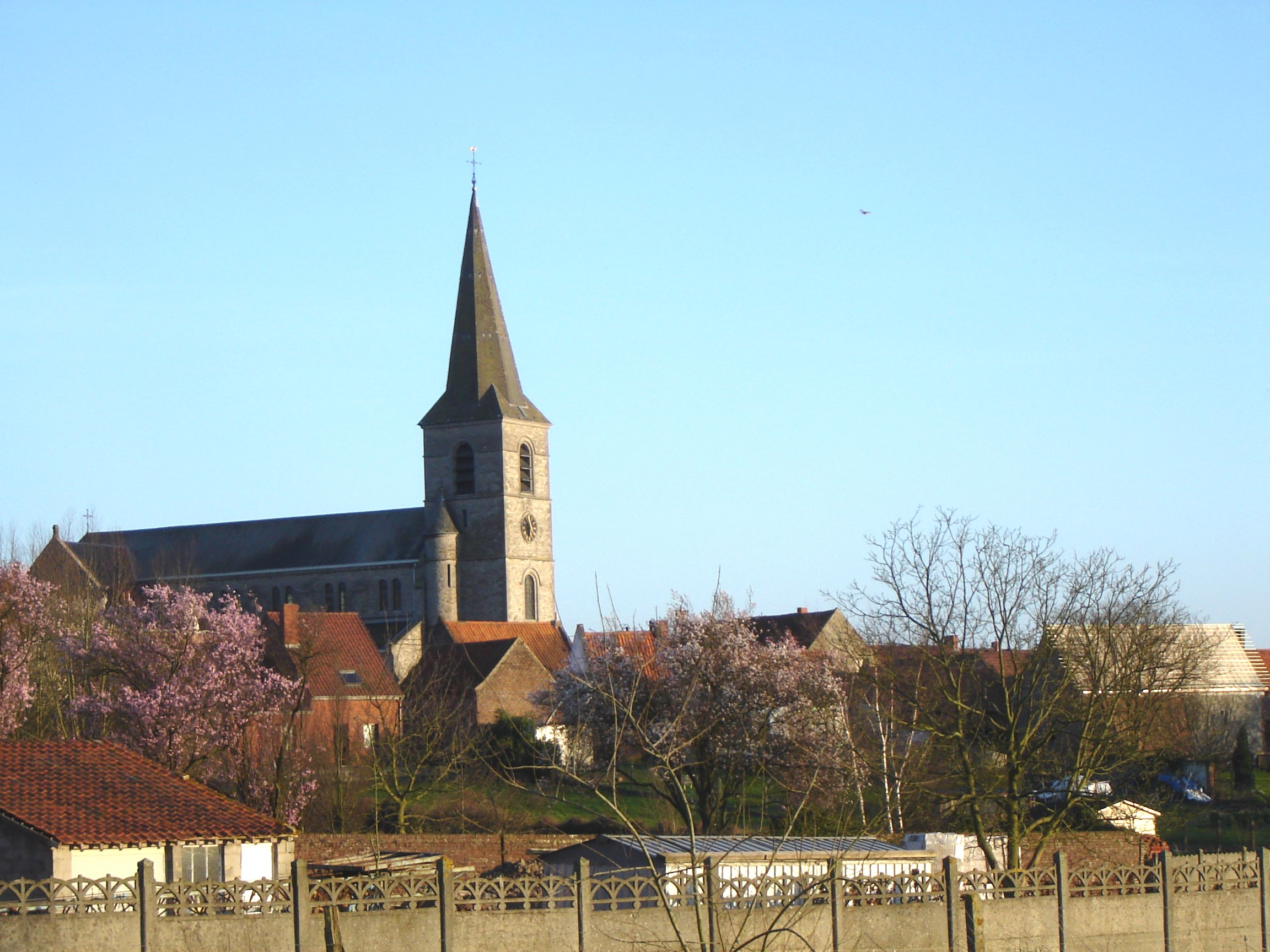 The village of Rongy, with the Eglise Saint-Martin. Rongy, Brunehaut, Hainaut, Belgium